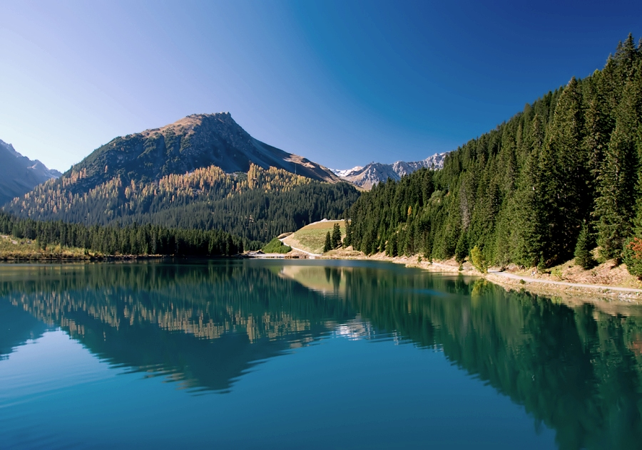 Stausee Isel, a reservoir at Arosa, Graubünden, with Schaffrügg (2347 m).